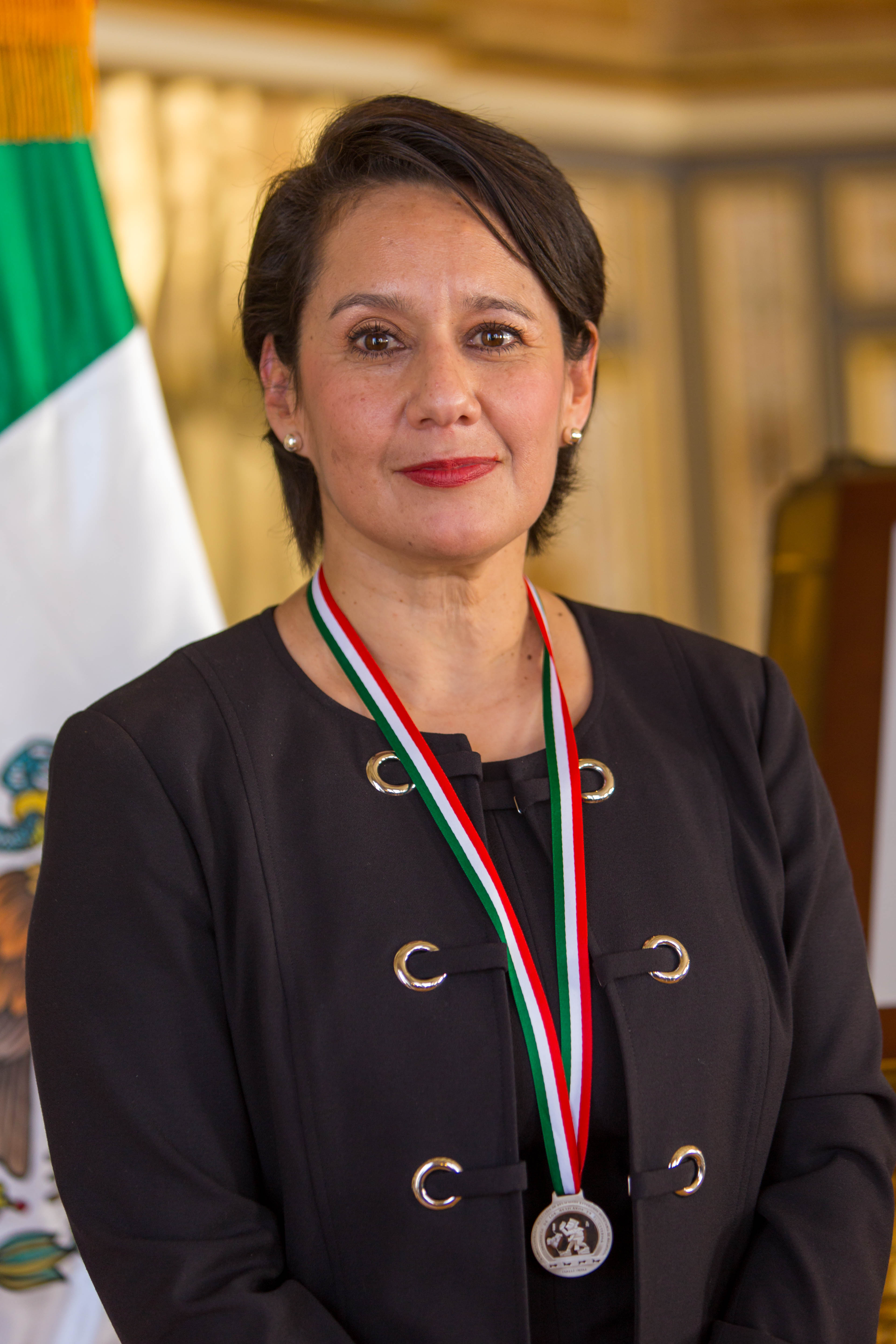 Ana Recio Harvey wearing the Ohtli Award in 2015.